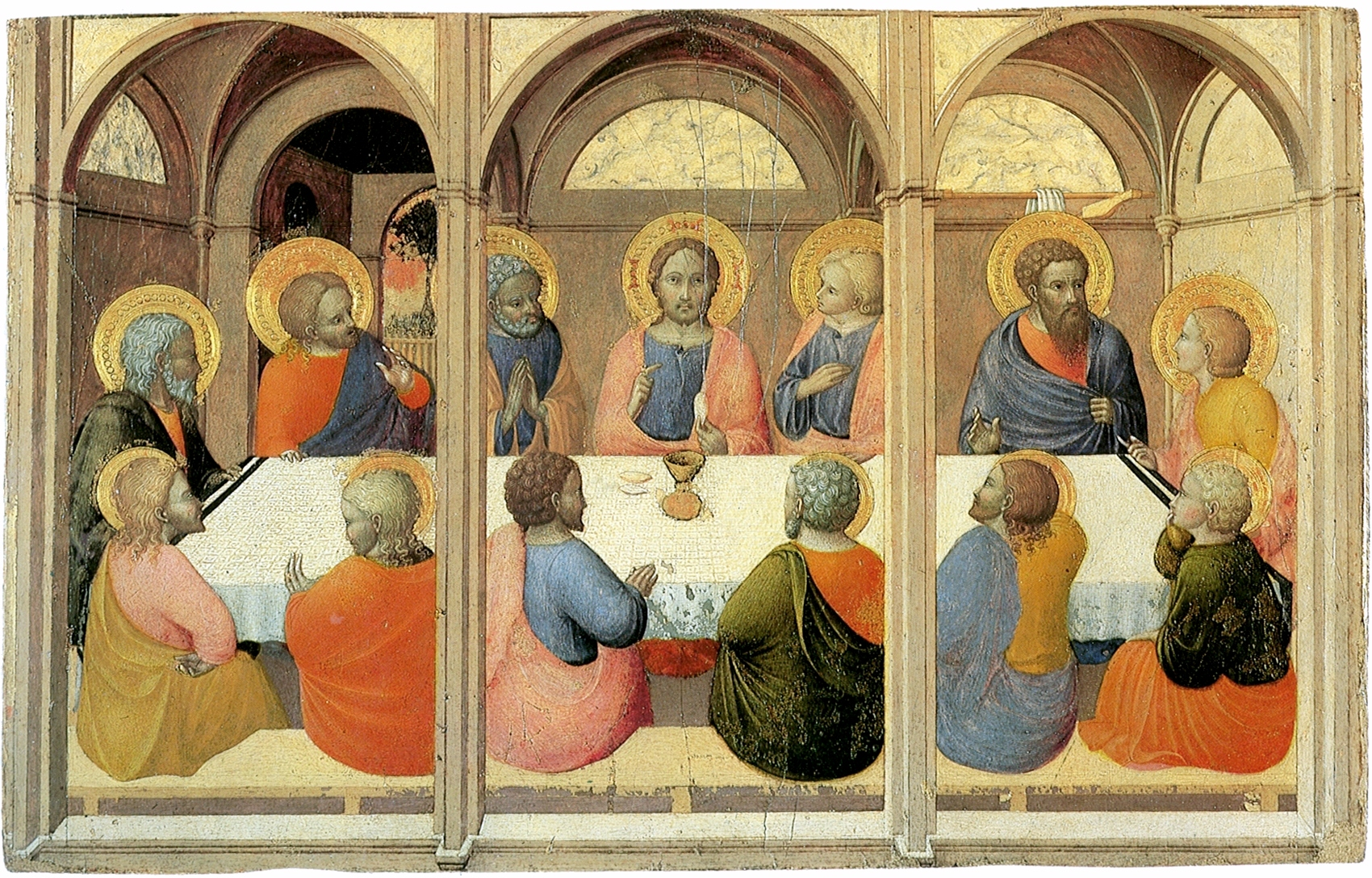 Institution of the euchrist